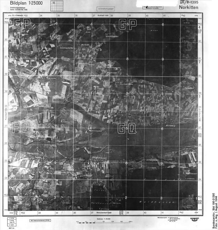 Norkitten Information added by Wikimedia users.